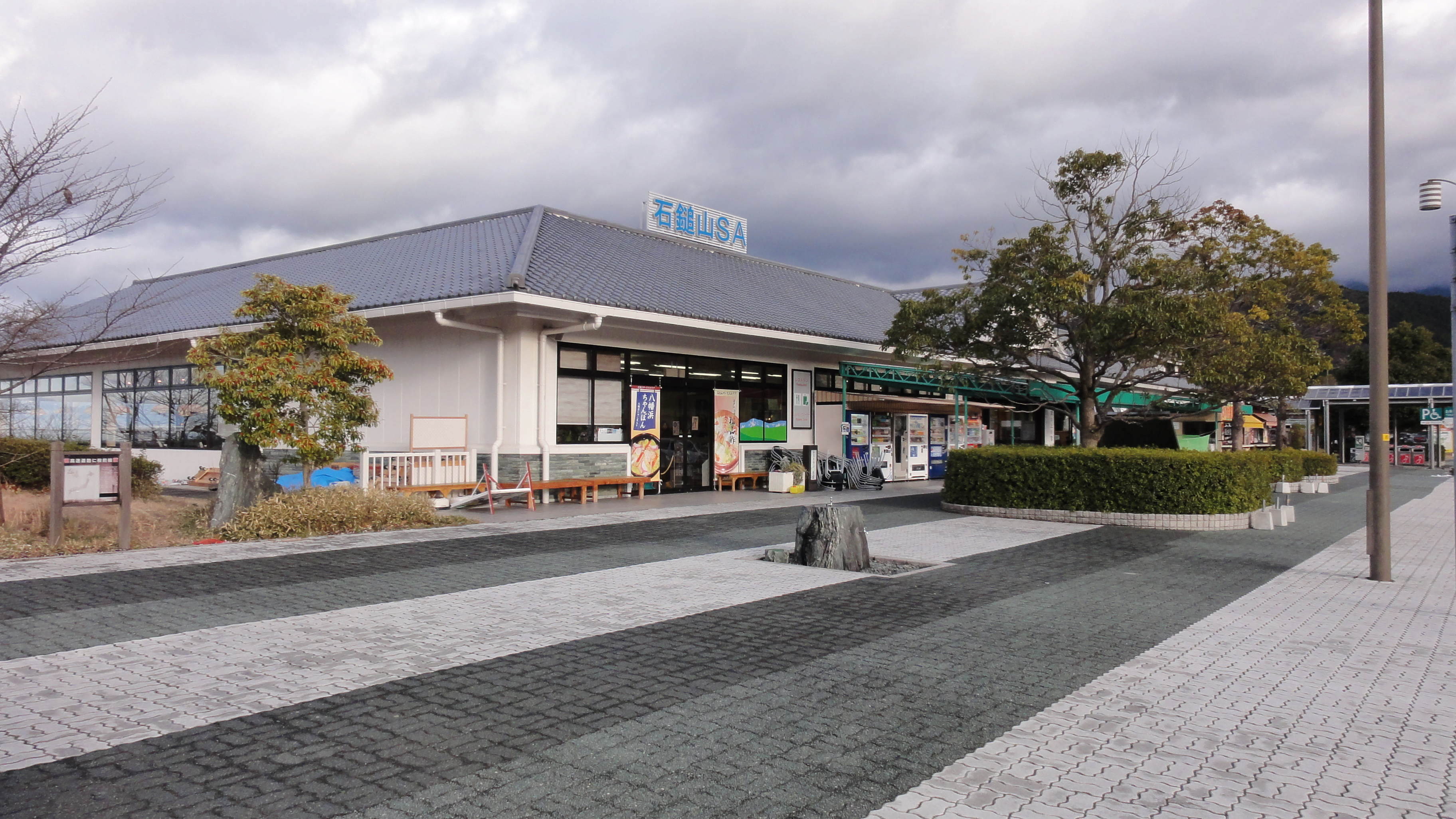 Ishizuchiyama service area,Ehime pref..,Japan